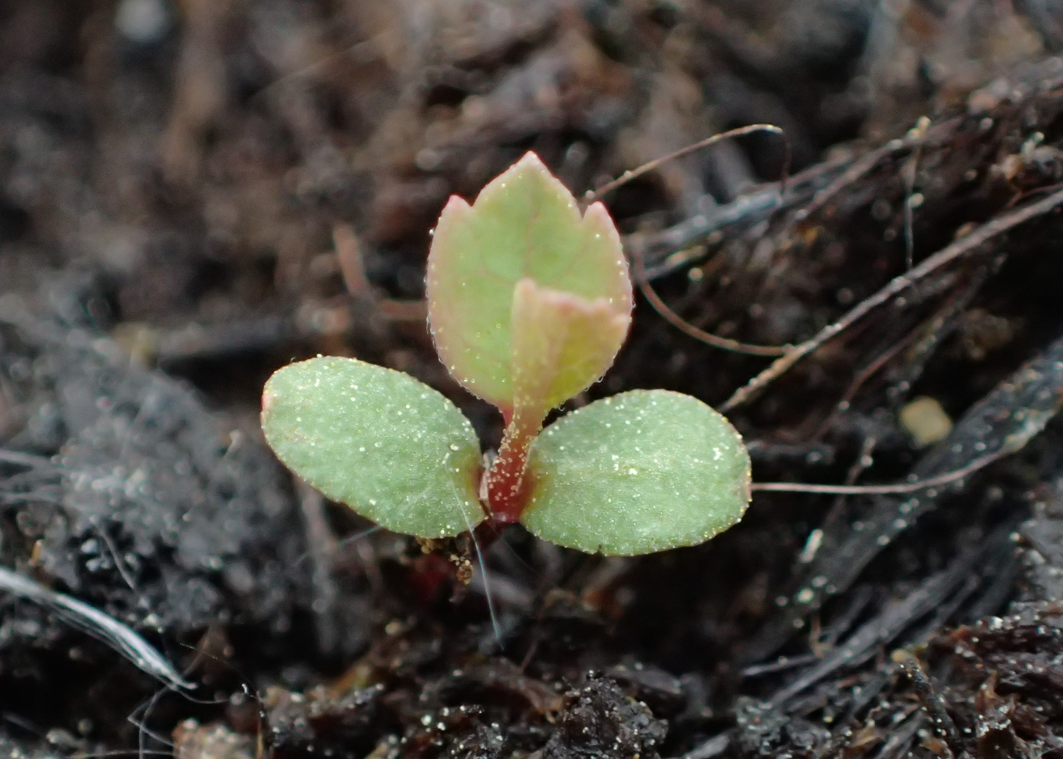 Myrica gale seedling. Private garden in Szczecin, NW Poland